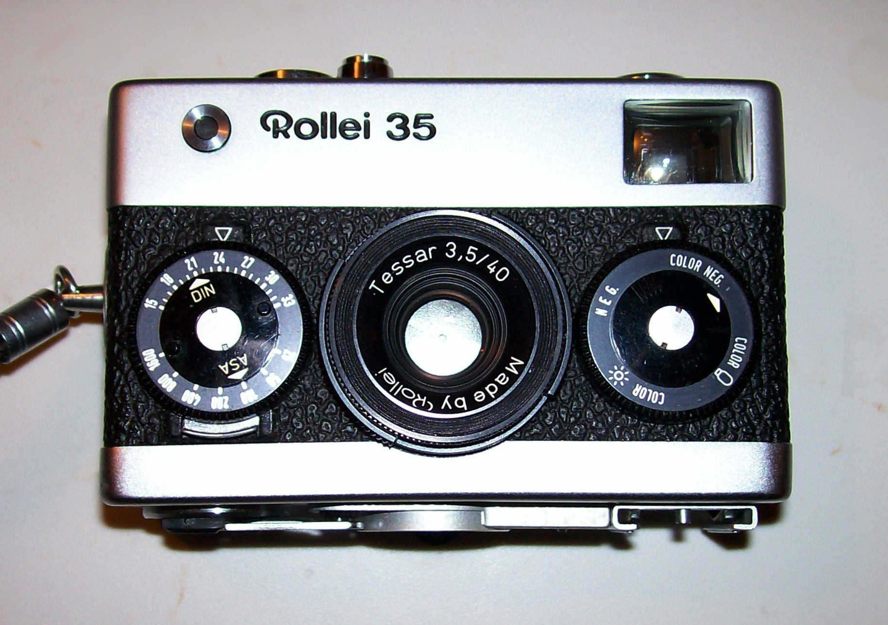 Rollei 35 with Tessar 40/3.5 lens